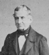 Giovanni Arrivabene (1786-1881)